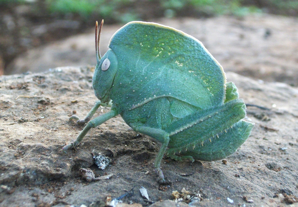 Hooded Grasshopper Teratodes monticollis at Mangaon, Maharashtra, India.